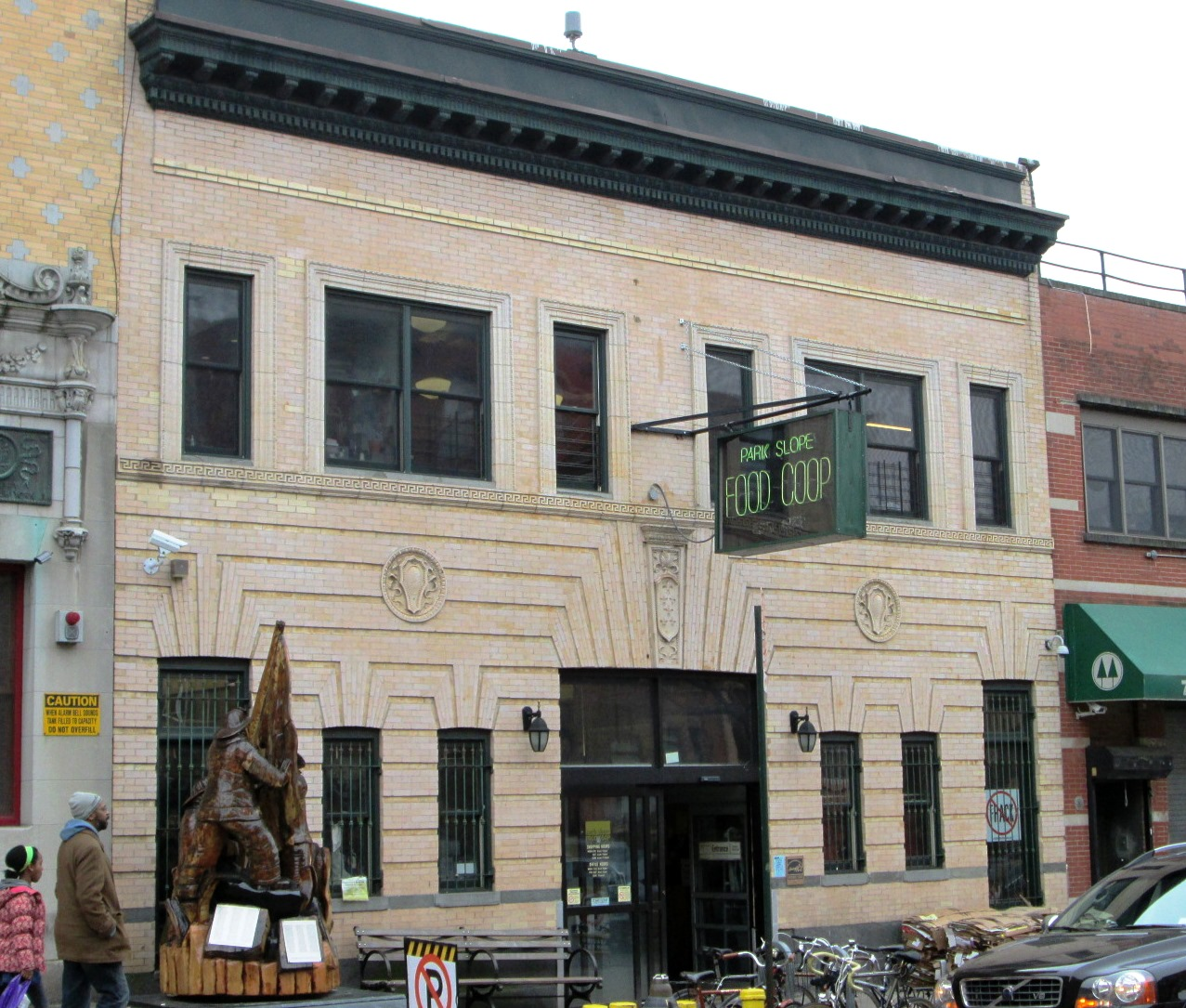 The Park Slope Coop building at 782 Union Street between 6th and 7th Avenues in the Park Slope neighborhood of Brooklyn, New York City was built in 1920. (Source: NYC GIS map)